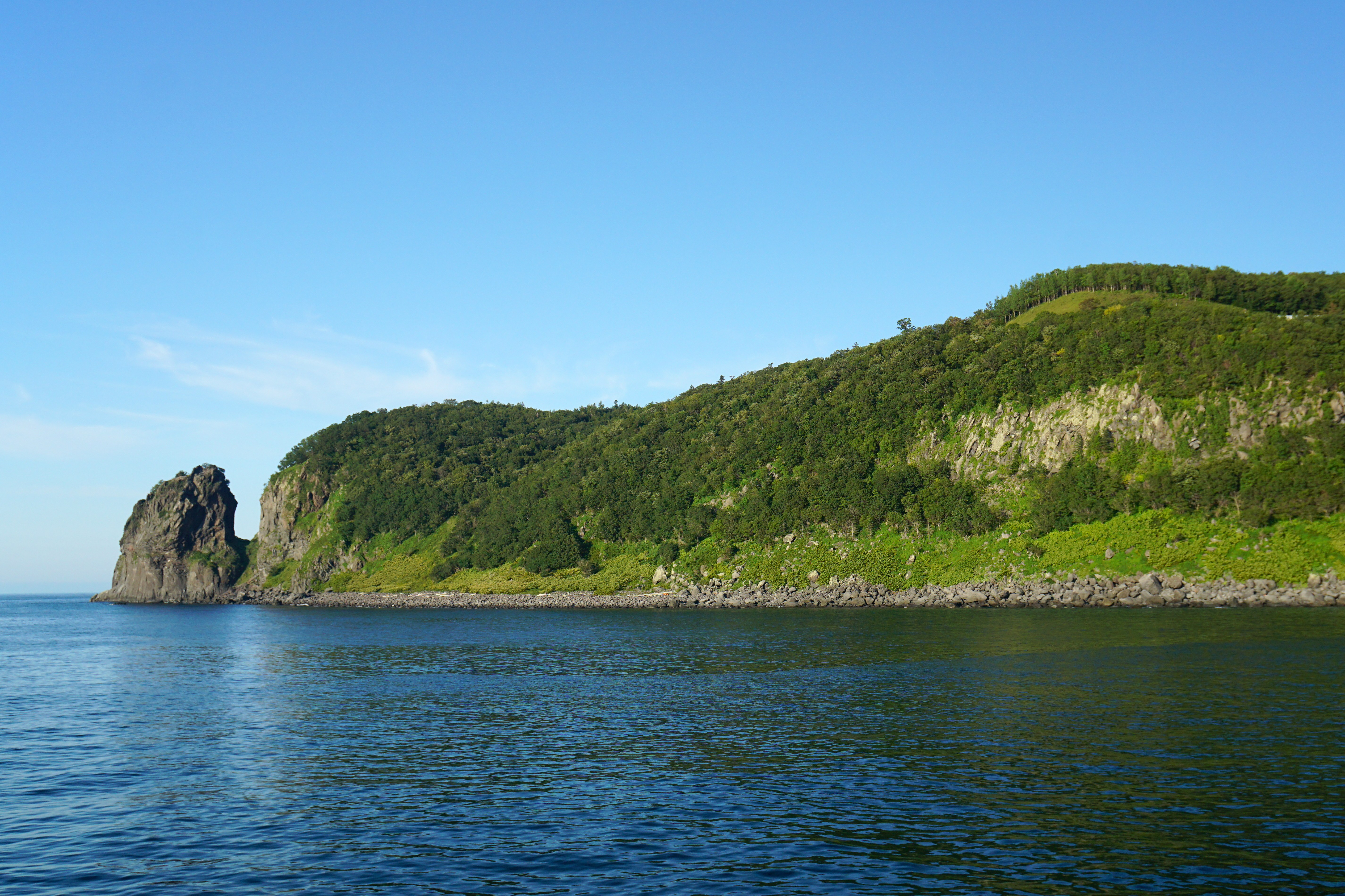 Cape Puyuni view from the Sea of Okhotsk at Shari, Hokkaido prefecture, Japan.